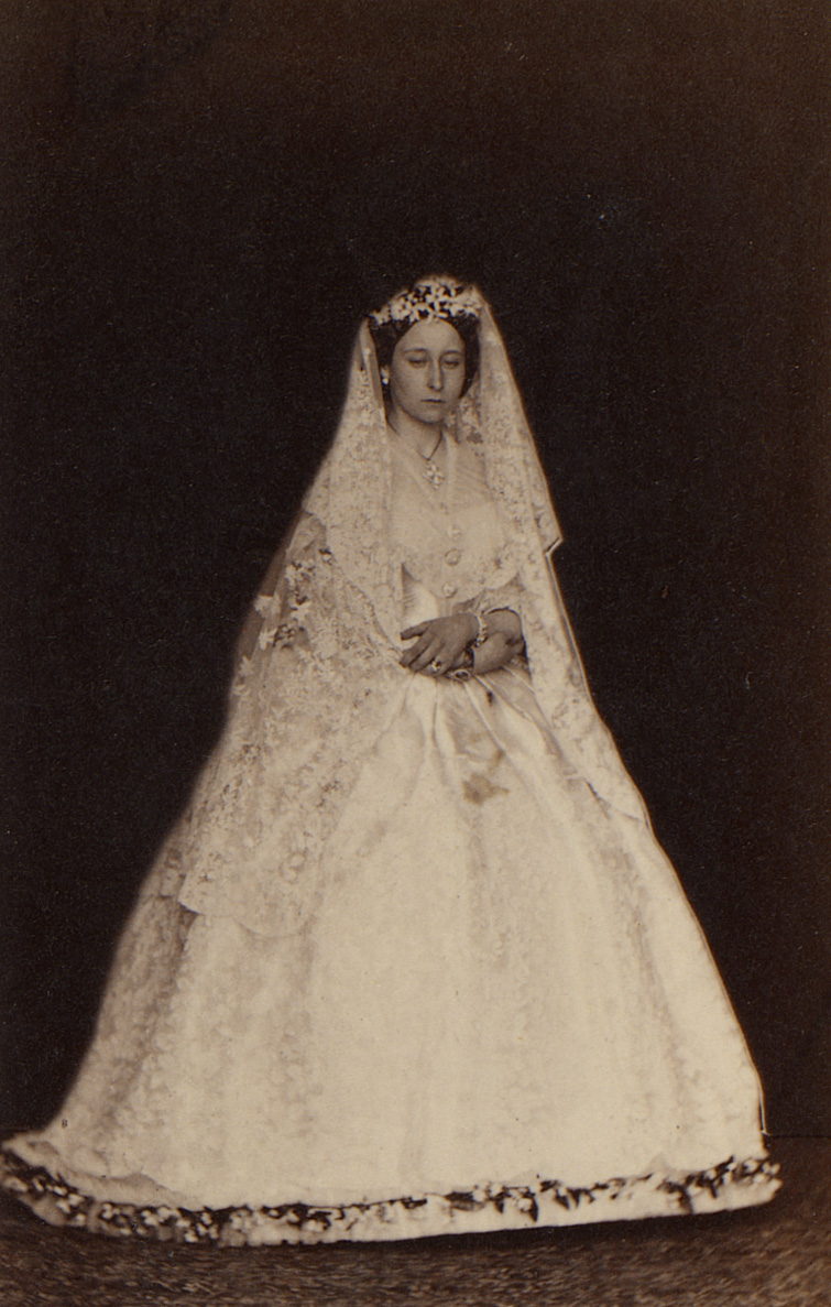 Princess Alice of the United Kingdom in her wedding dress, 1862. Sepia tone, darkened background.